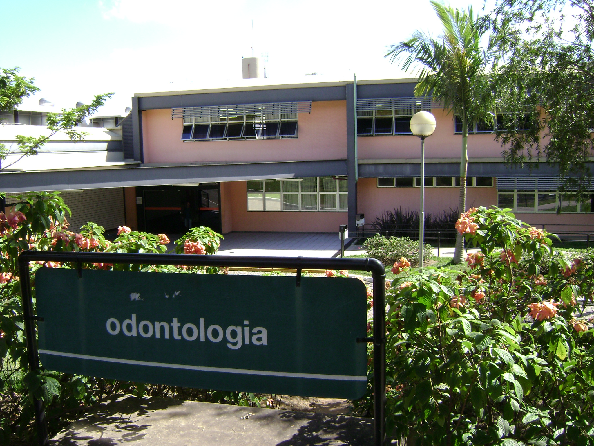 Faculdade de Odontologia de UFMG.